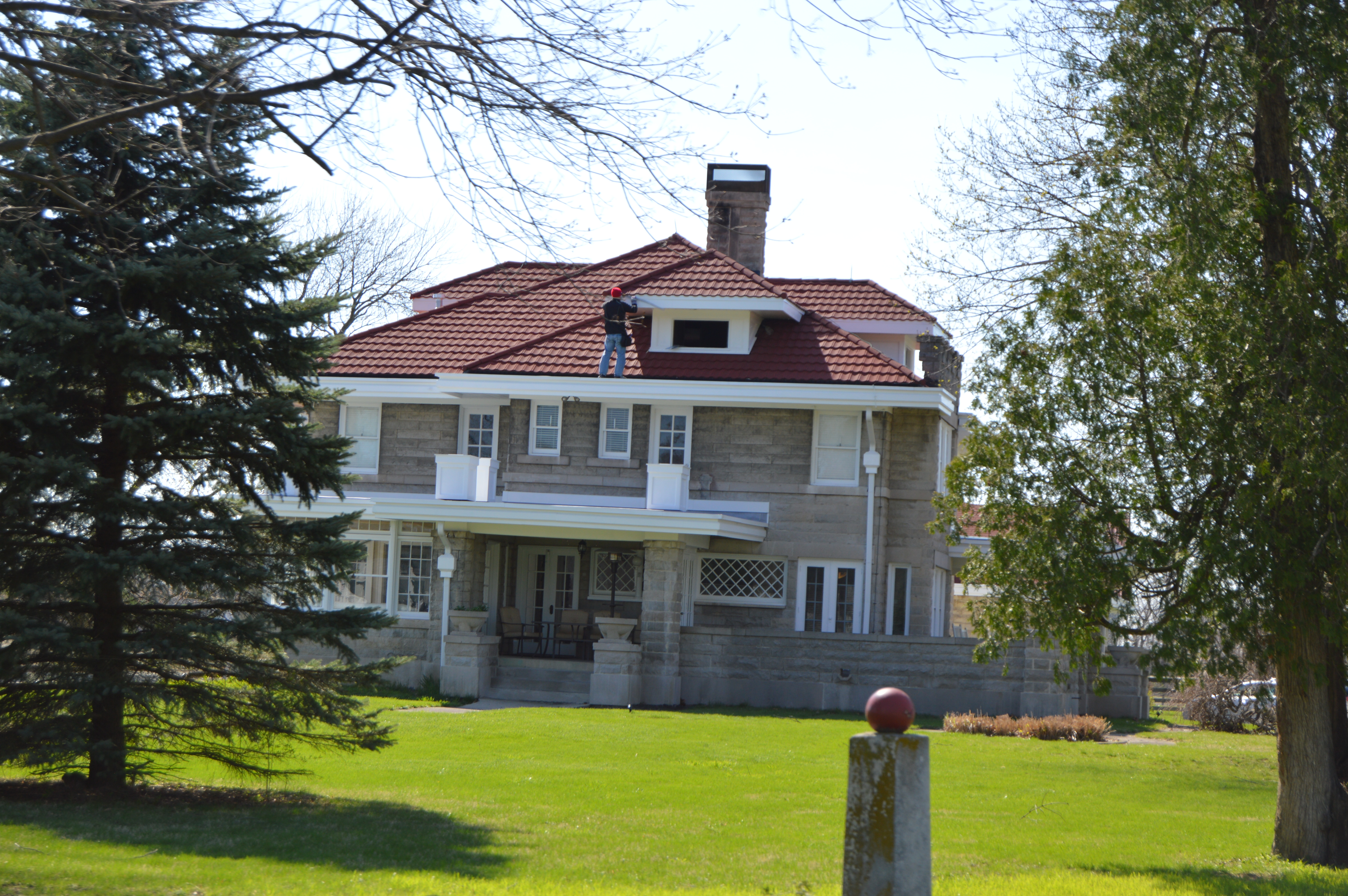 Front of the Browne-Rafert House, located at 534 N. Merrill Street just northwest of Fortville in Vernon Township, Hancock County, Indiana, United States. Built in 1914, it is listed on the National Register of Historic Places.